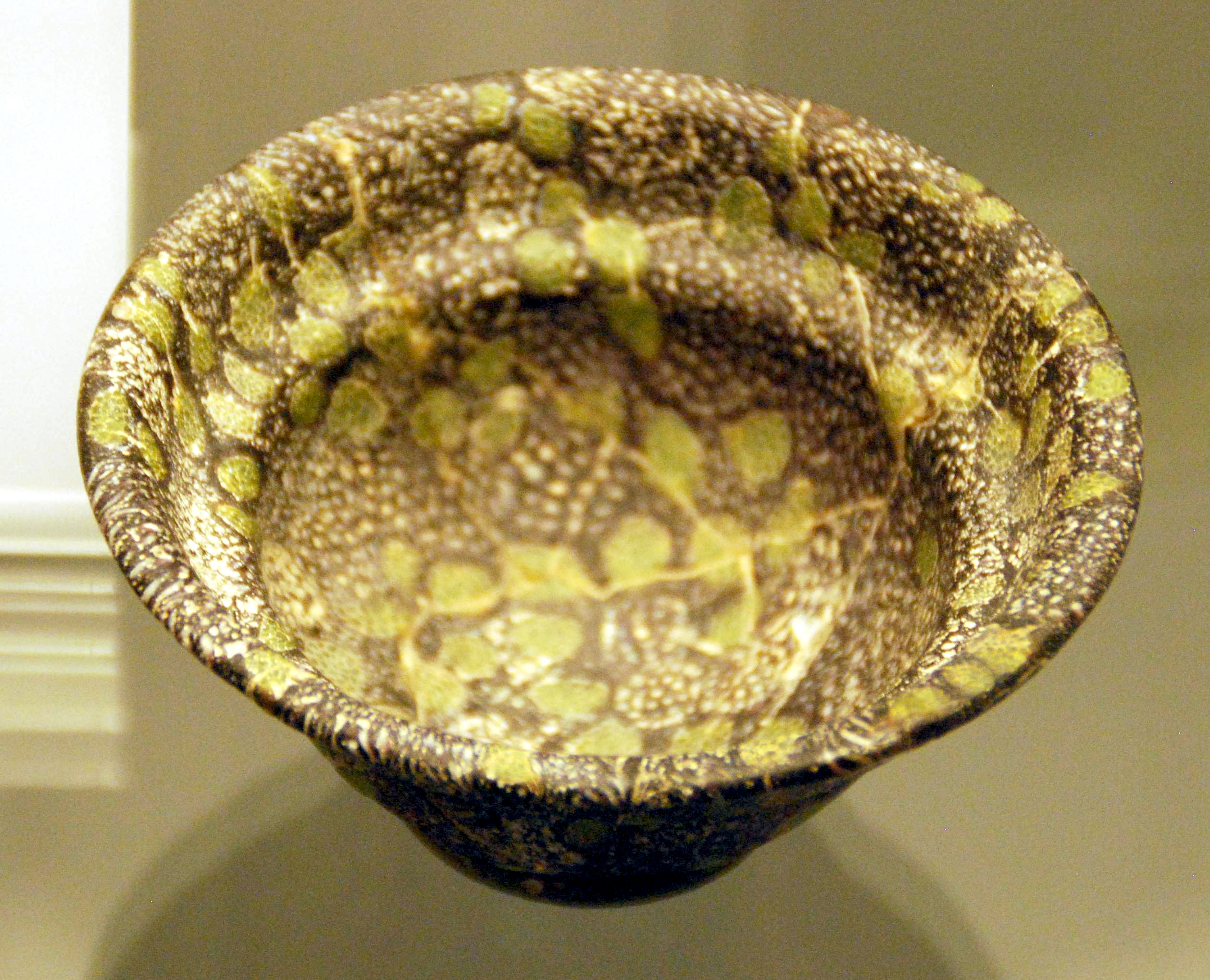 Roman Acetabula; Glas, made between 1st century B.C. and 1st century A.C.; from Millefiori; Museum August Kestner Hannover (Inv.-nr. 1961.6)